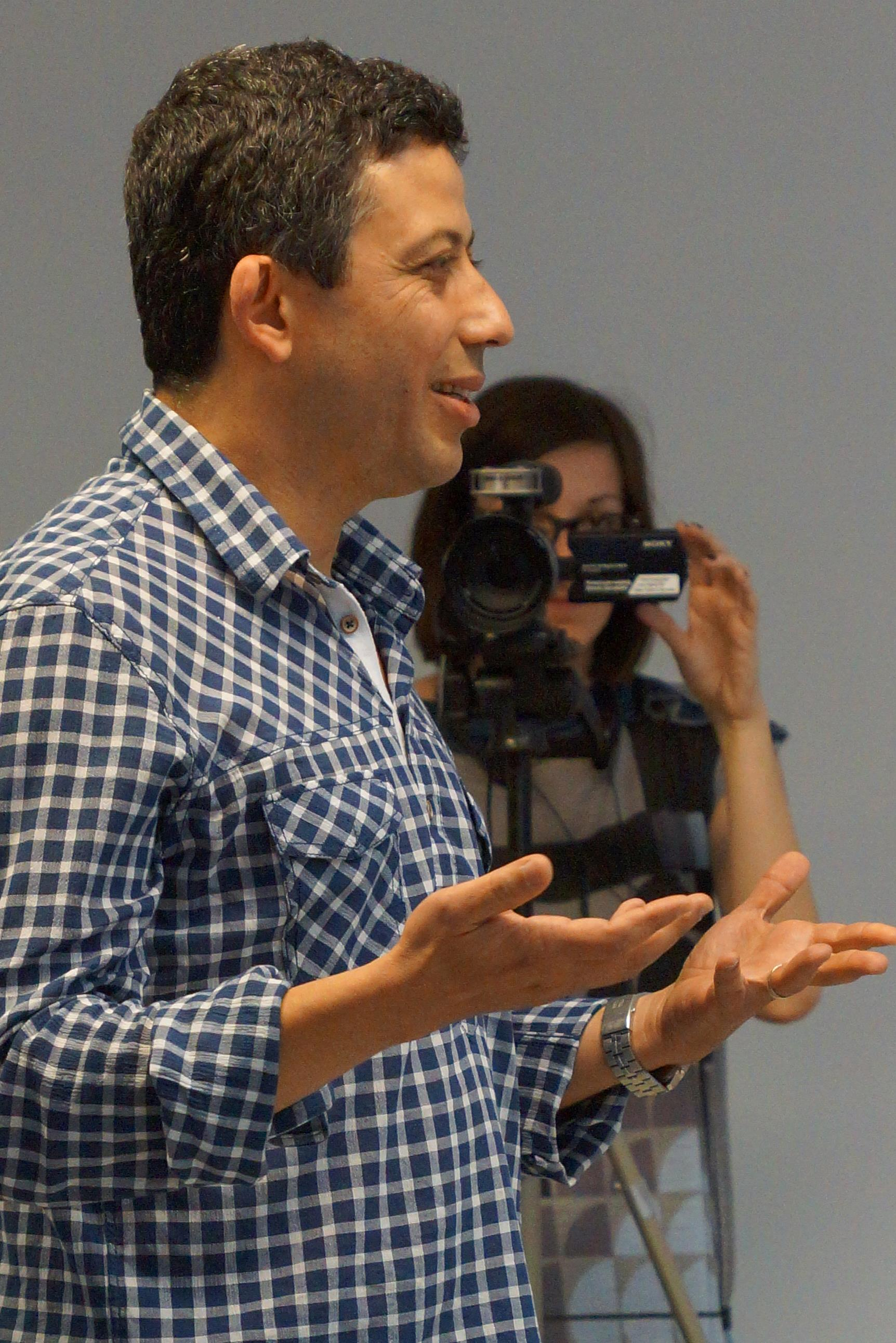 Alexandru Solomon giving a film-making seminar at the Central European University in Budapest on 2 July 2013